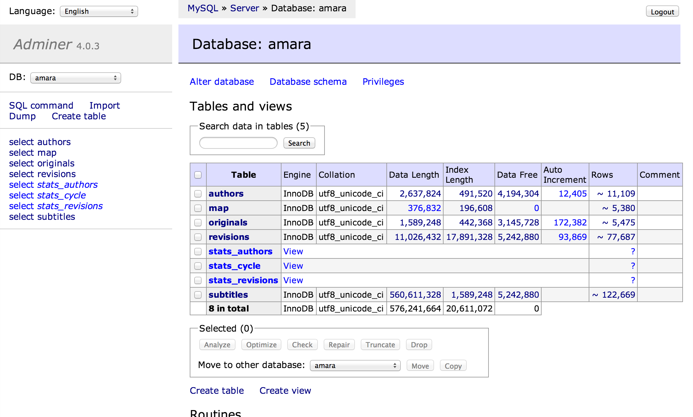 Screenshot of Adminer